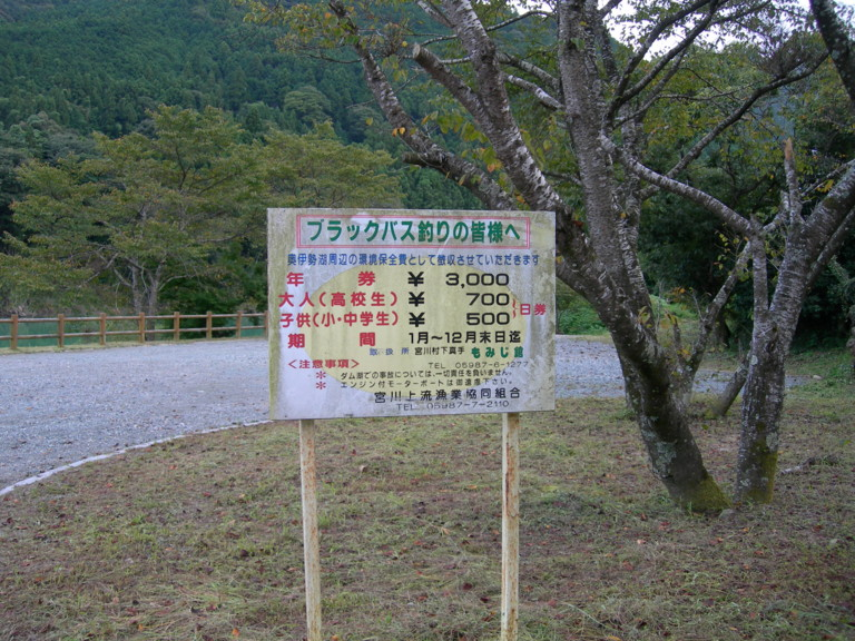 A fishing information board of Misedani Dam Lake at Odai town, Taki District, Mie Pref., Japan.